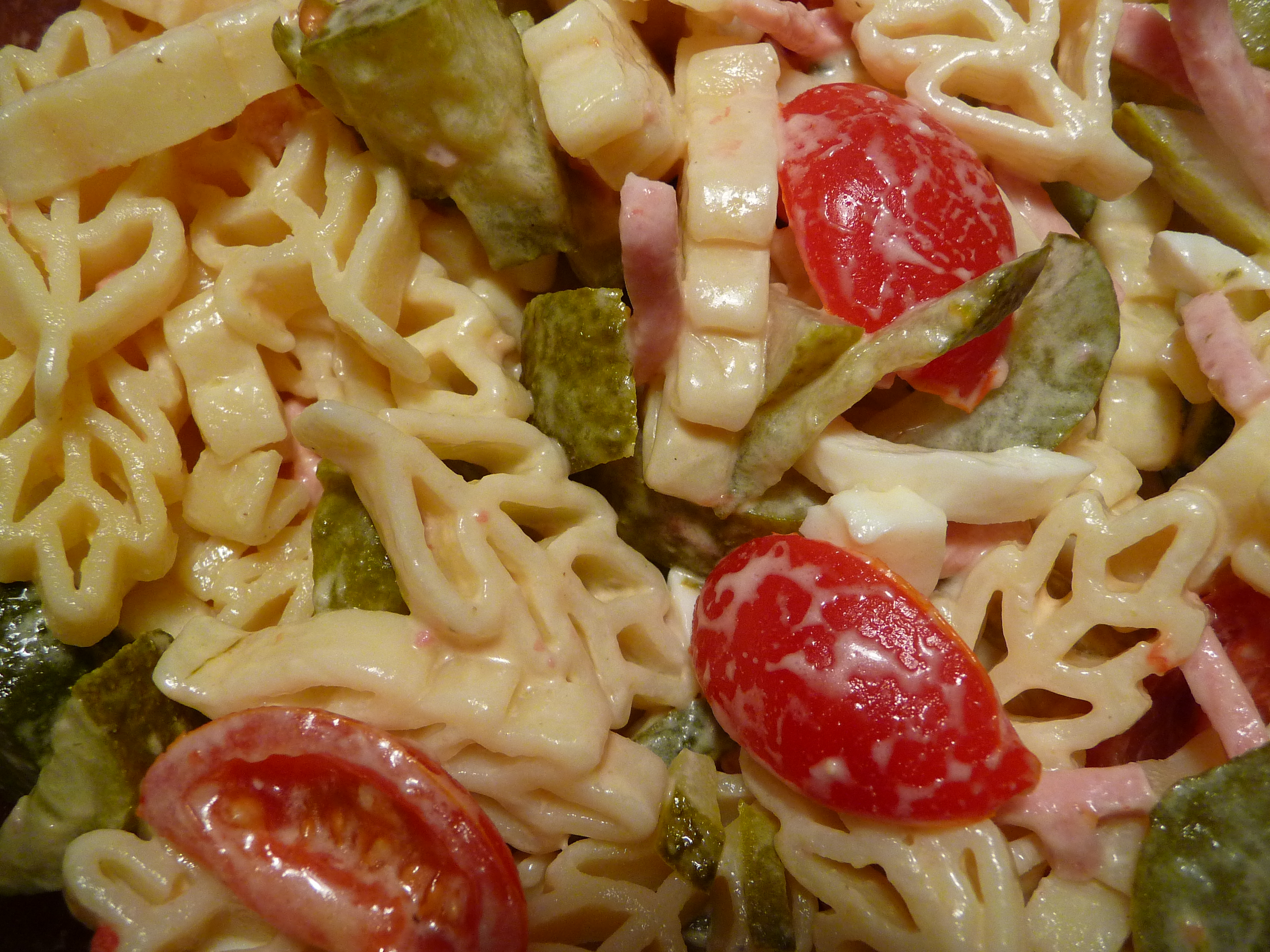 Pasta salad (spighe, tomatoes, pickled cucumber, baloney, boiled eggs, spices (salt and pepper), vinegar, vegetable oil